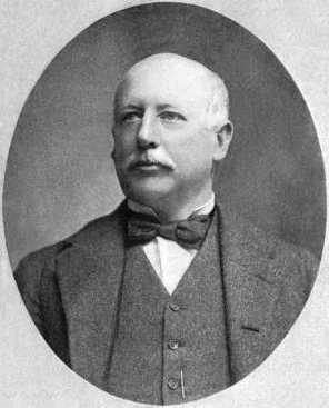 Henry Havemeyer, sugar manufacturer